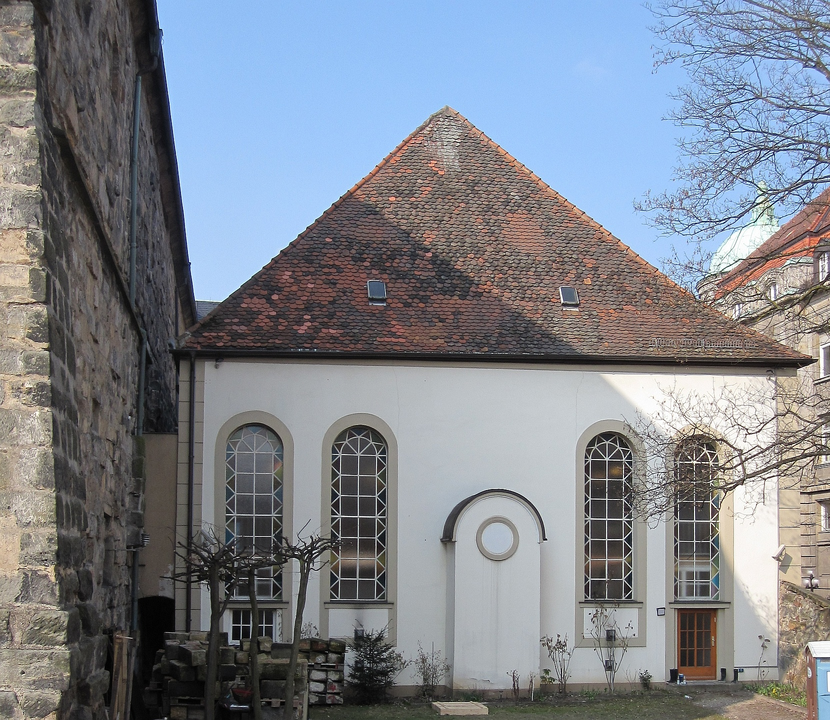 Bayreuth Synagogue 2012, before construction of the Mikwe. View from east, showing the proximity to the Margravial Opera House, the cause why it wasn't burnt down in the November 1938 Pogroms ("Kristallnacht")